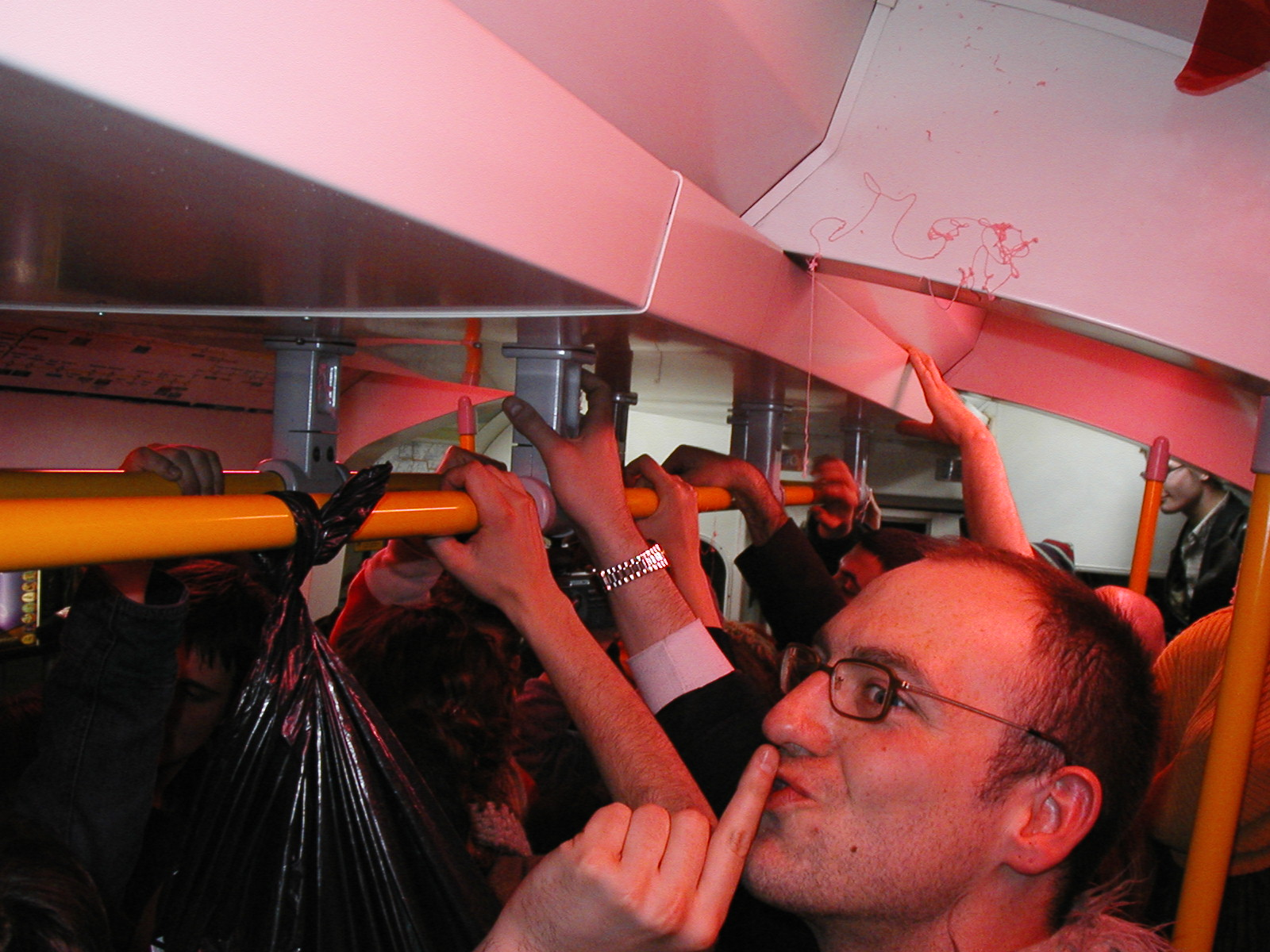 Circle Line Party, London Underground, March 14, 2003.P3140749